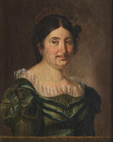 Eugénia Cândida da Fonseca da Silva Mendes (c.1760s-1843), 1st Baroness of Silva, was an entrepreneur and a liberal politician from Portugal.